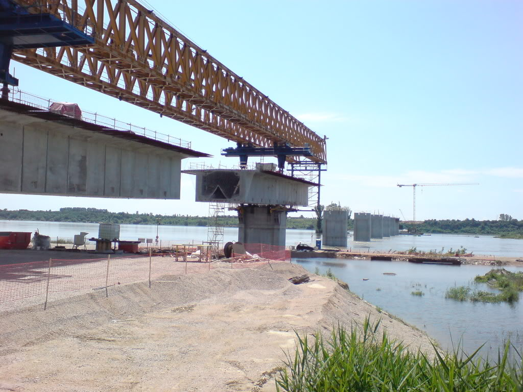 Danube Bridge 2 from Vidin to Calafat under construction, as seen in June 2010. View from the Bulgarian river bank towards the small island in the non-navigable channel of the river